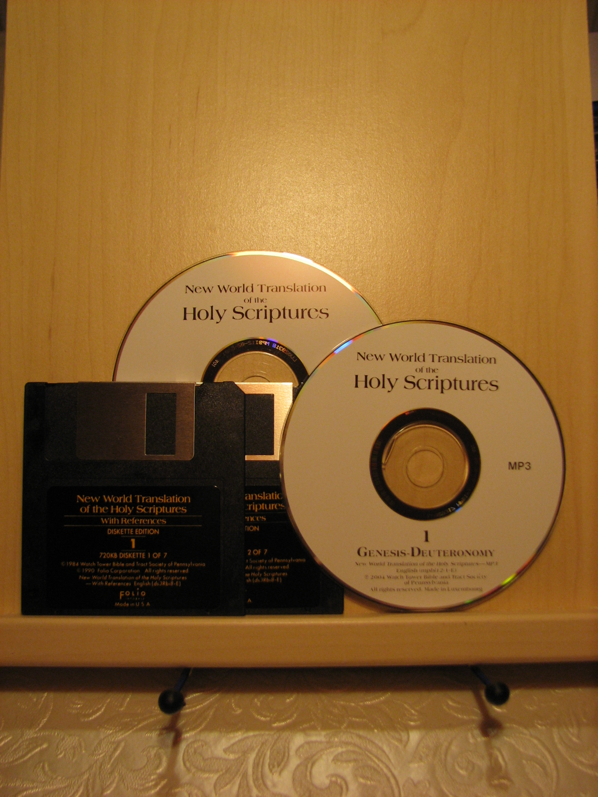 New World Translation on disks and MP3/Audio CD's